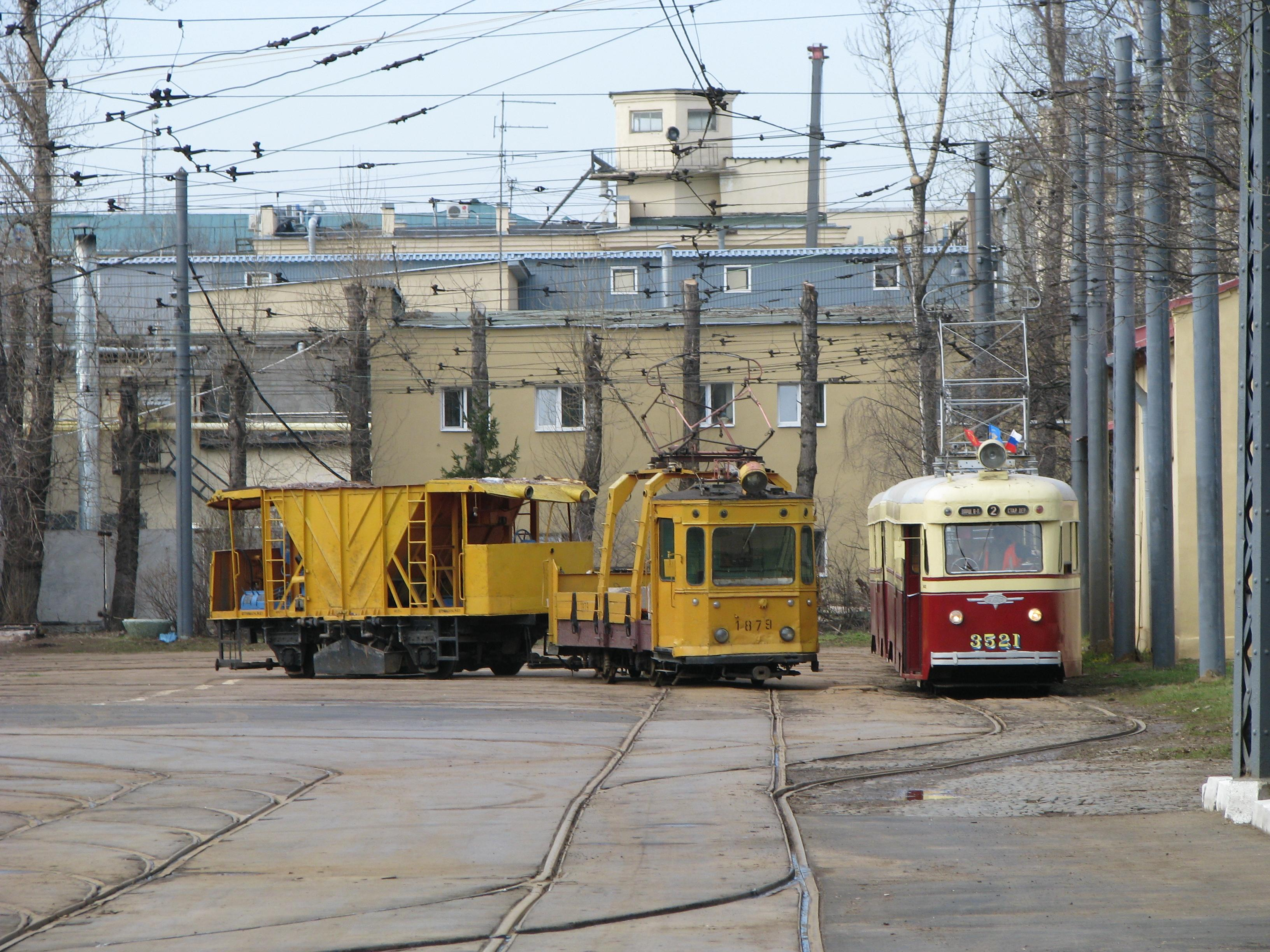 Cargo tram with wagon-dosage and LM-47 - LP-47 tram at Leonova depot (№2) in Saint Petersburg